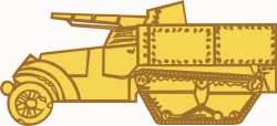 U.S. World War II Tank Destroyer Insignia.